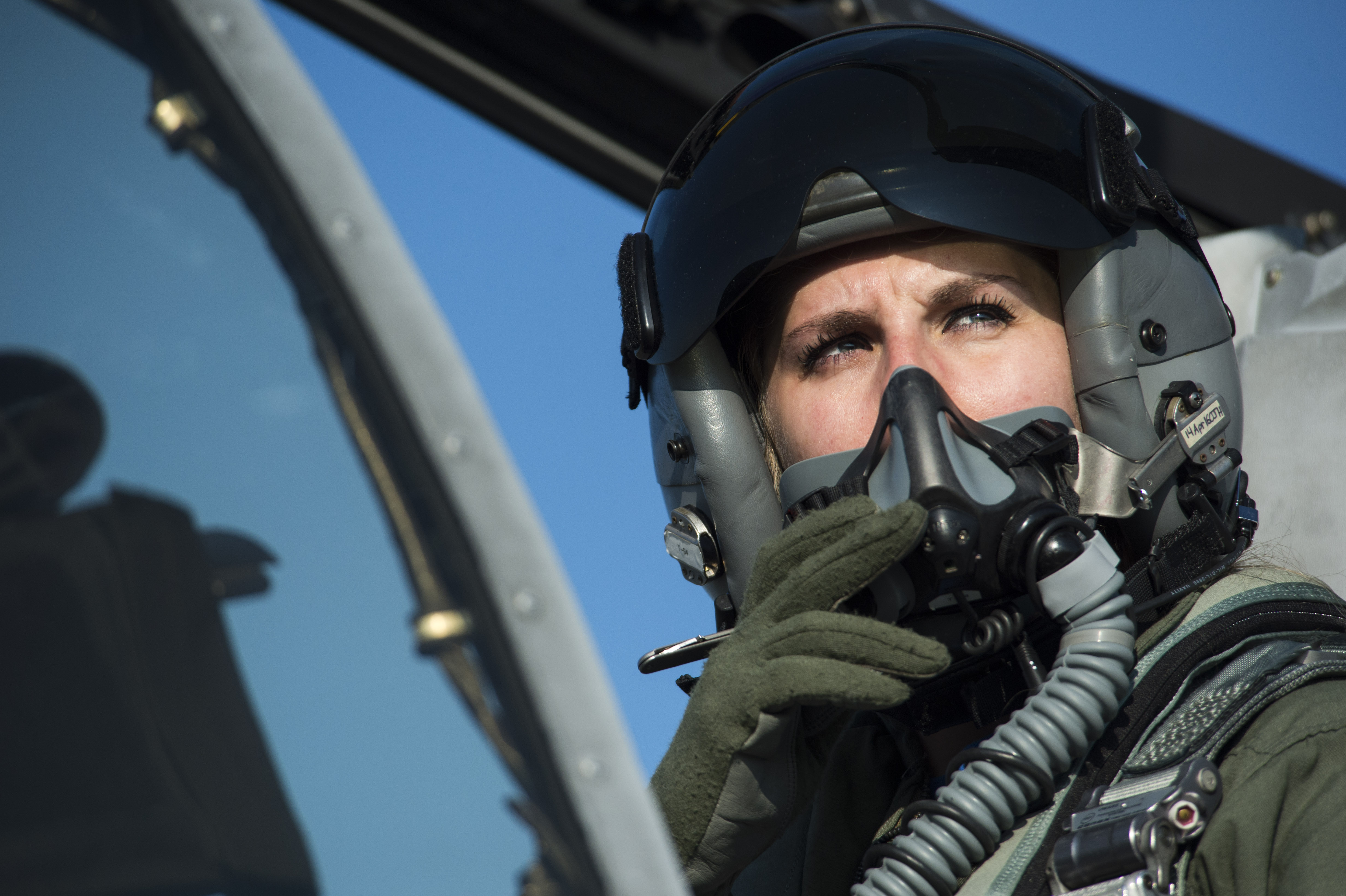 U.S. Air Force 1st Lt. Kayla Bowers, a 74th Expeditionary Fighter Squadron A-10 Thunderbolt II pilot, looks out of the cockpit of her aircraft during the 74th EFS’s deployment in support of Operation Atlantic Resolve at Graf Ignatievo, Bulgaria, March 18, 2016. Operation Atlantic Resolve is a demonstration of the U.S.’s continued commitment to the collective security of NATO and dedication to the enduring peace and stability of Europe. (U.S. Air Force photo by Staff Sgt. Joe W. McFadden/Released)